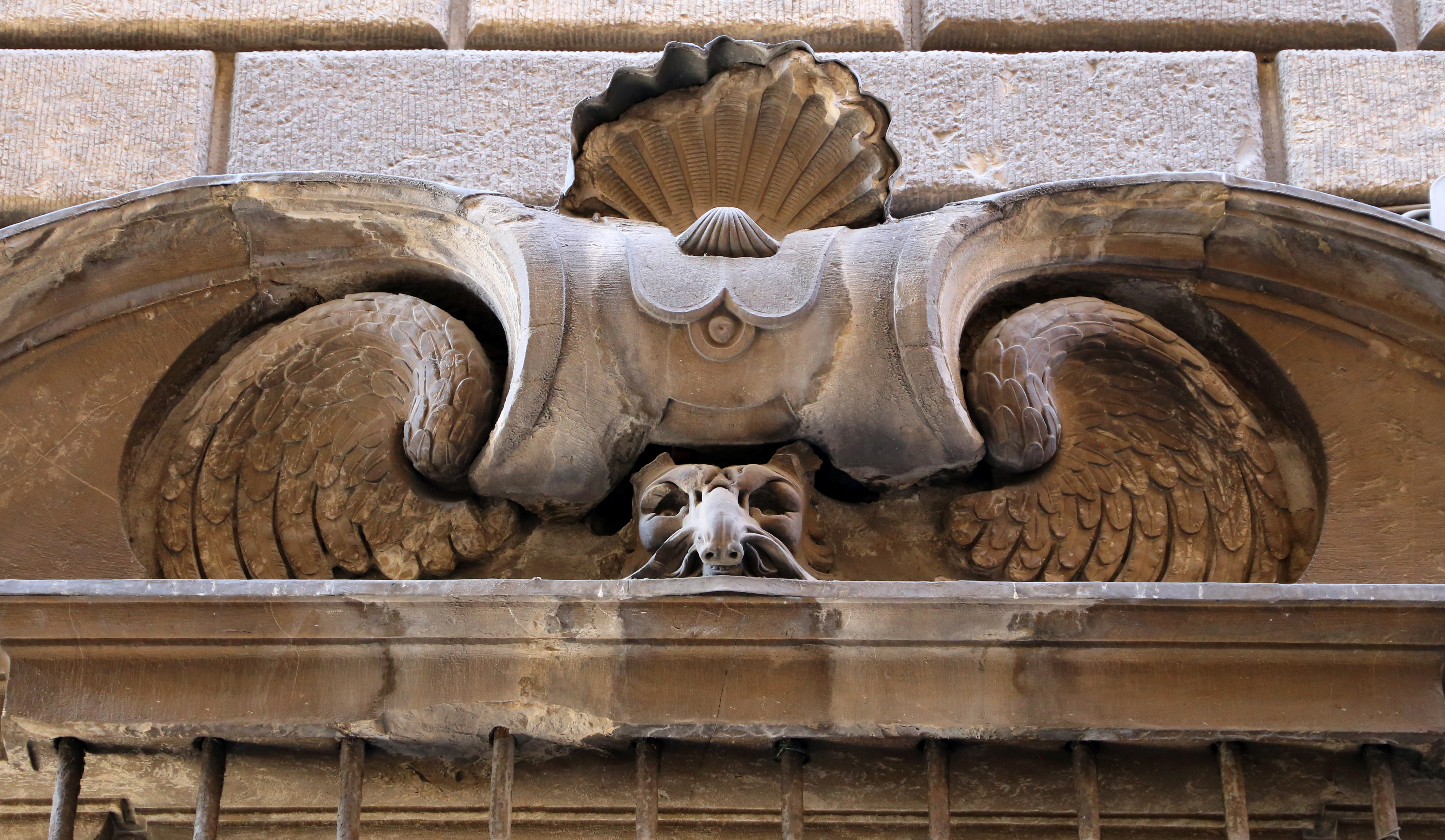 Palazzo Nonfinito